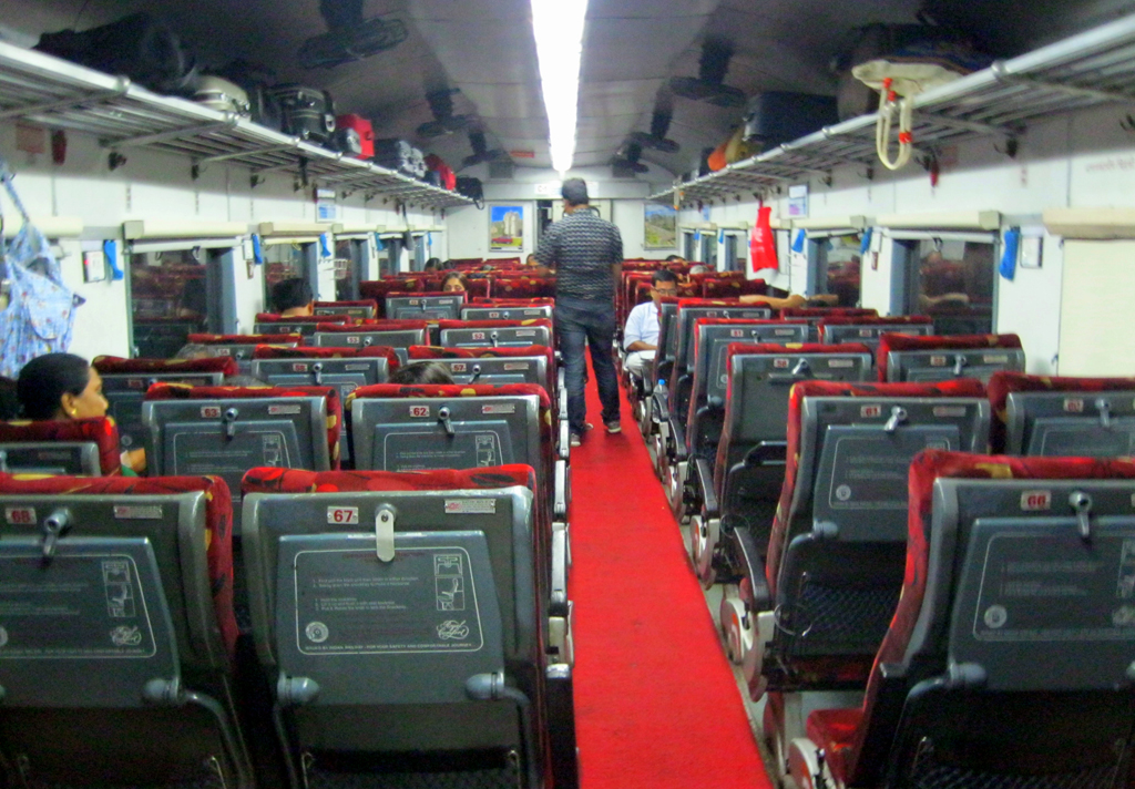 Interiors of AC Chair Car of train number 12061 Habibganj-Jabalpur Jan Shatabdi Express